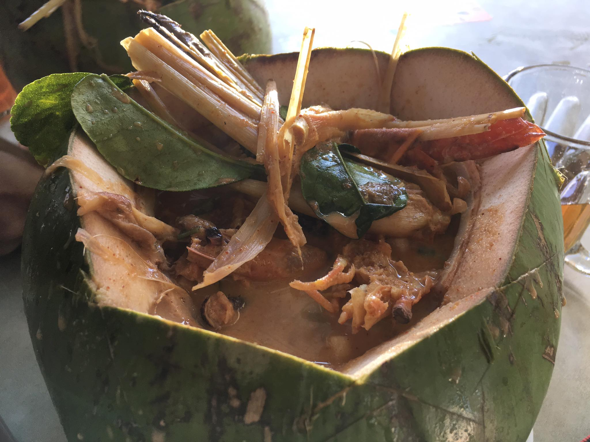 This is an iconic food of Glory Cafe Sarikei.